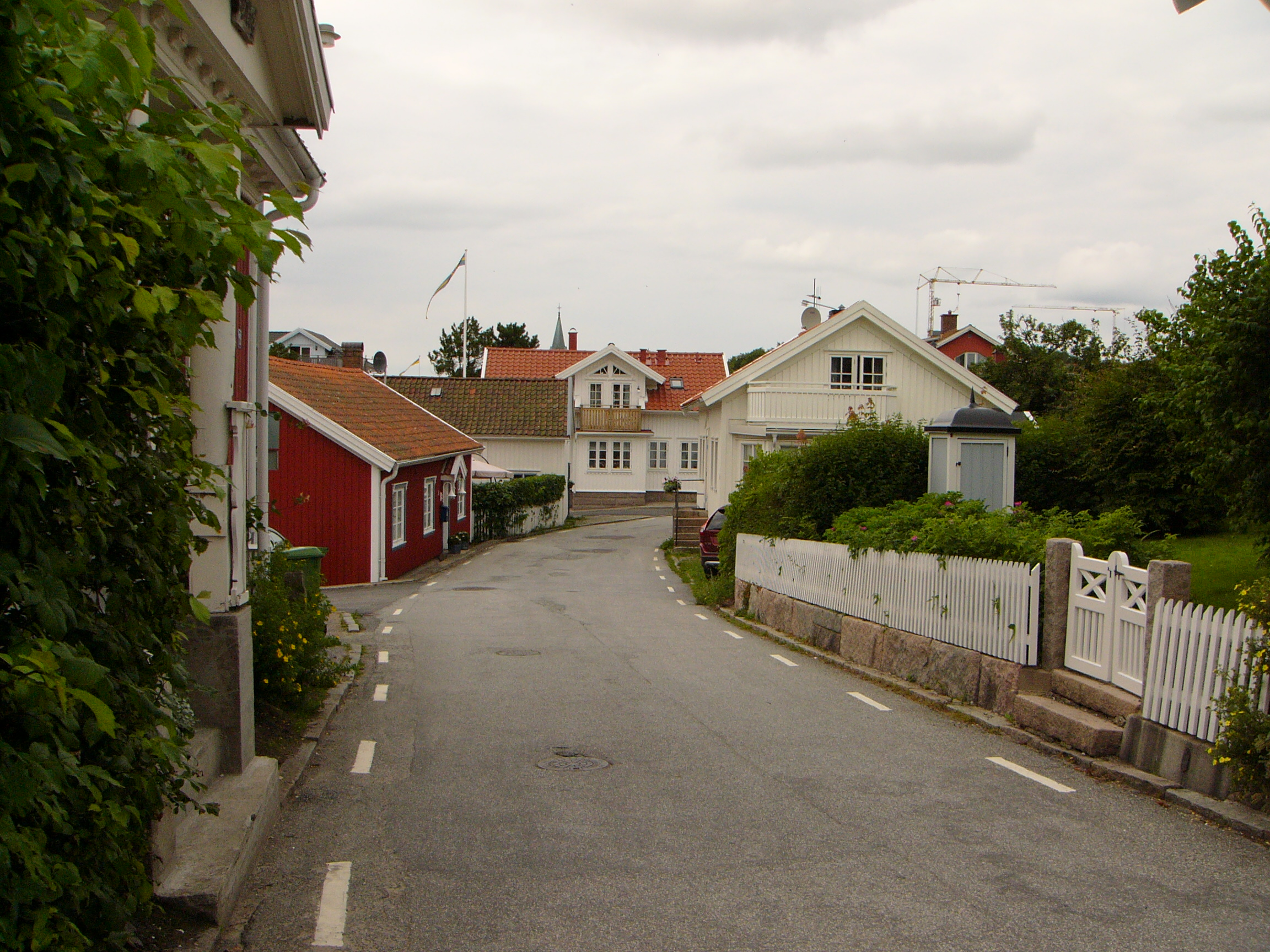 Övre långgatan, Grebbestad.